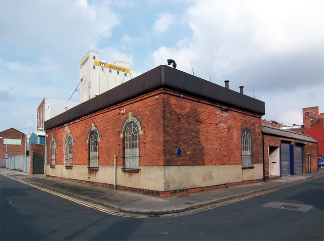 Hydraulic power station at the junction of Catherine Street (left) and Machell Street (right), Hull, East Riding of Yorkshire, England, seen from the southwest. This is the earliest municipal hydraulic power station, designed by Henry Robinson and built for the Hull Hydraulic Power Company in 1875. A single-storey red brick building with arched openings with a water tank on the roof.